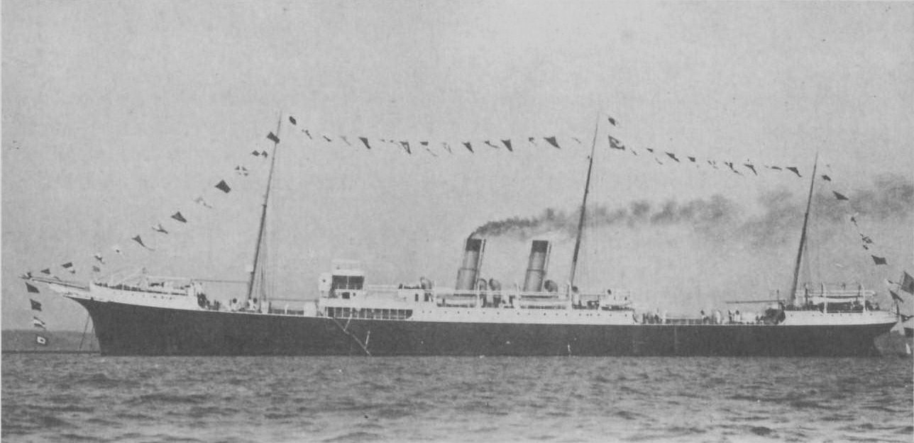 Russian hospital ship "Orel ", Are captured at the Battle of Tsushima, and will be operated "Kusuho Maru" by Toyo Kisen. The image comes from becoming "Kusuho Maru".